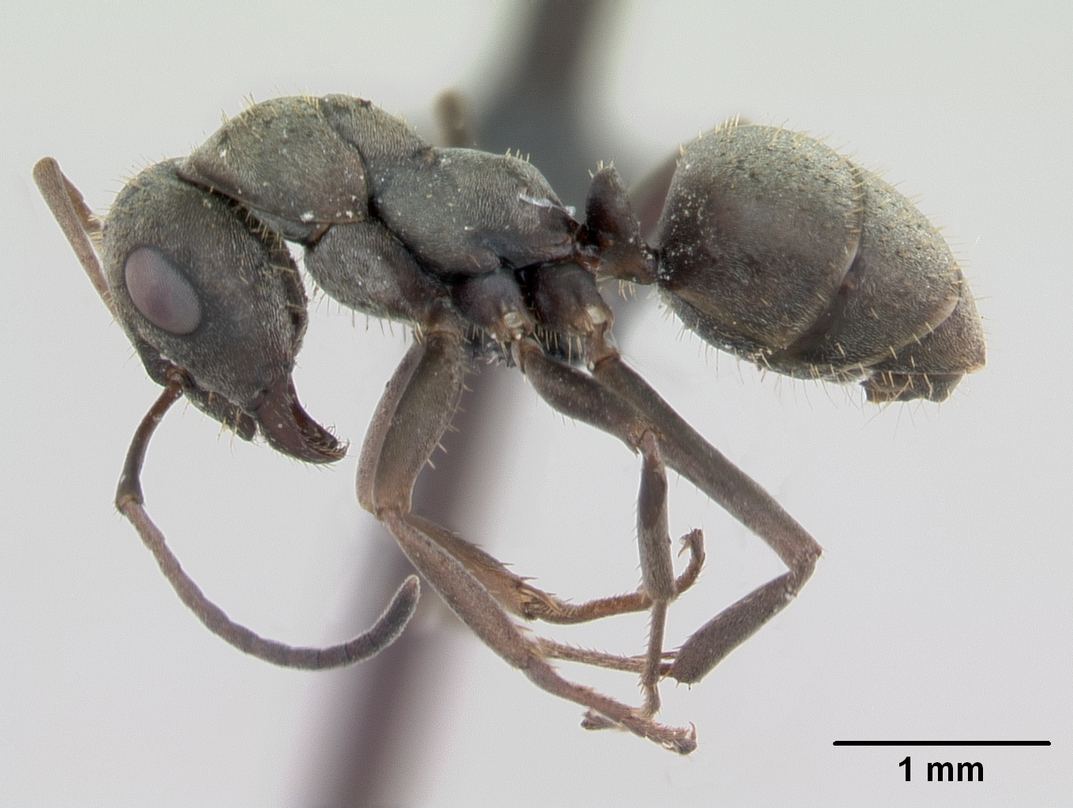 Profile view of ant Formica cinerea specimen casent0173156.